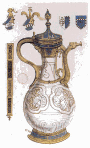 Fonthill_vase_by_Barthelemy_Remy_1713